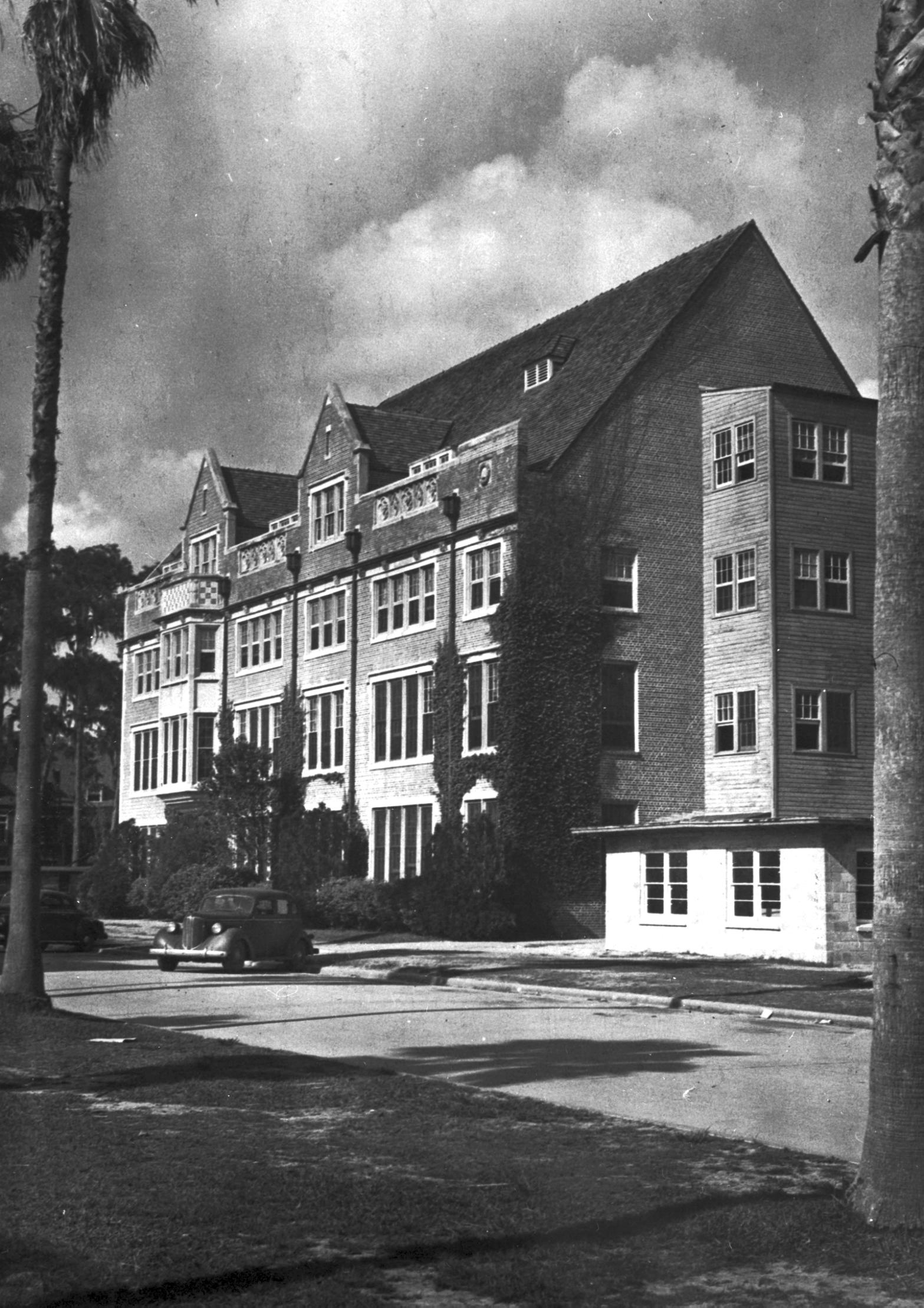 A historic photo of Rolfs Hall from the side